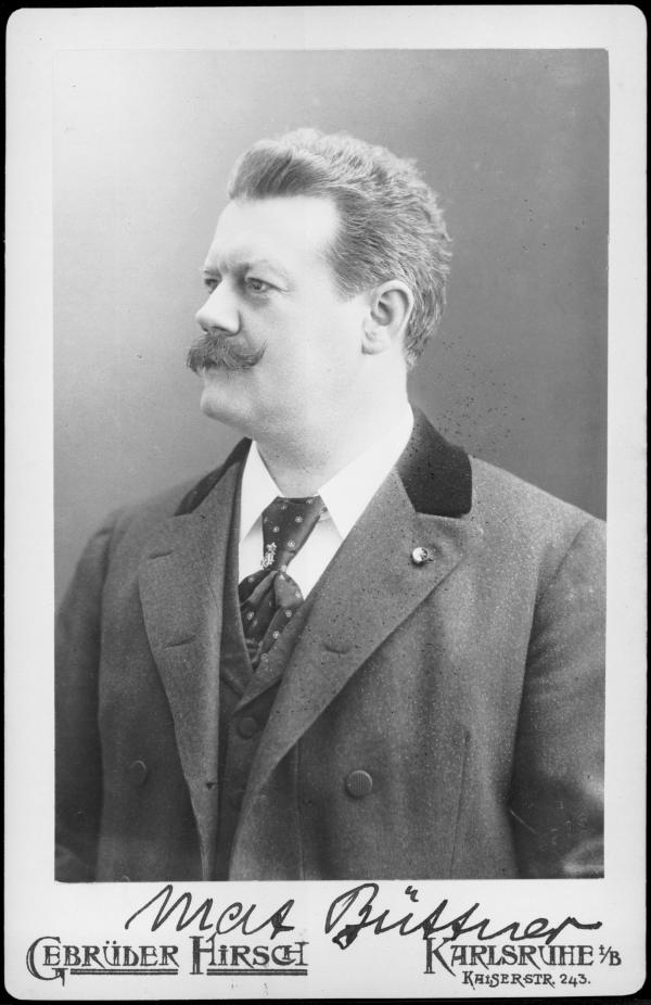 The German opera singer Max Büttner (1857-1927)